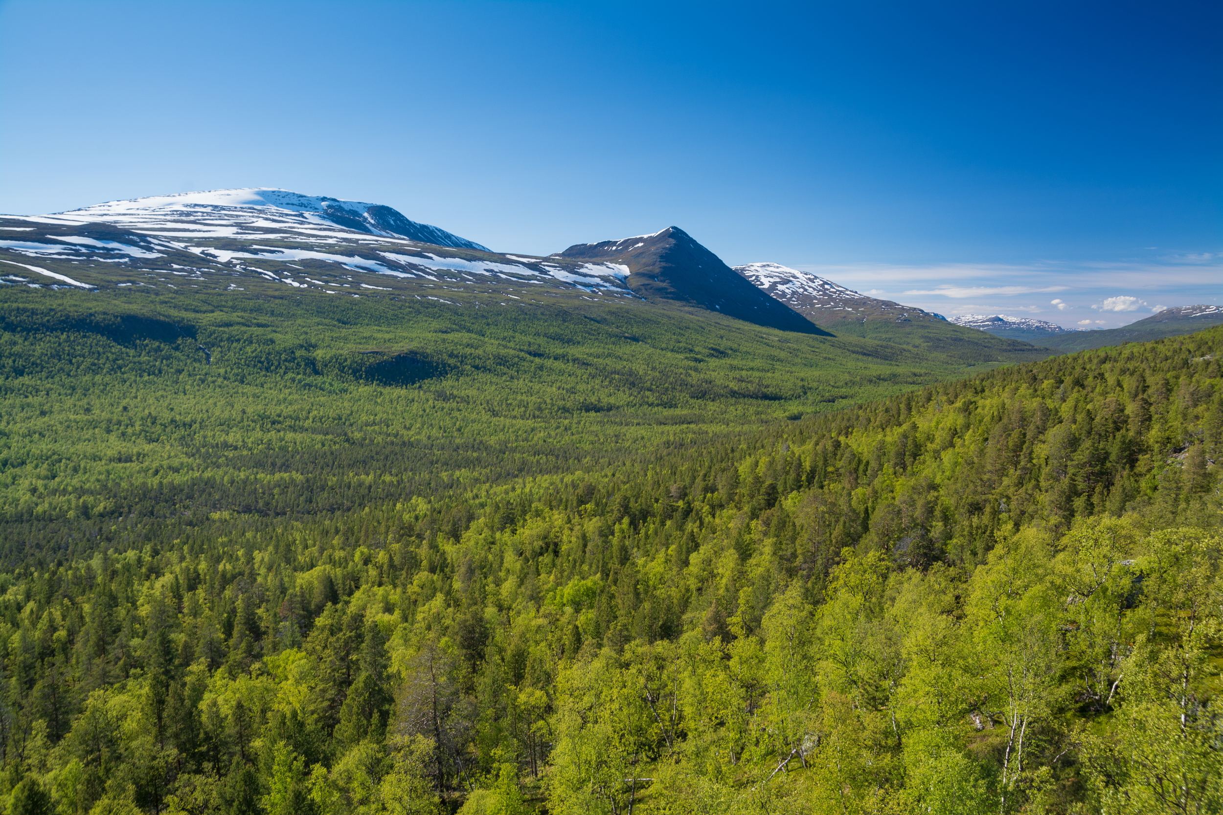 Dividalen valley in Øvre Dividal National Park, seen in northwestern direction from a hill above Gambekk river